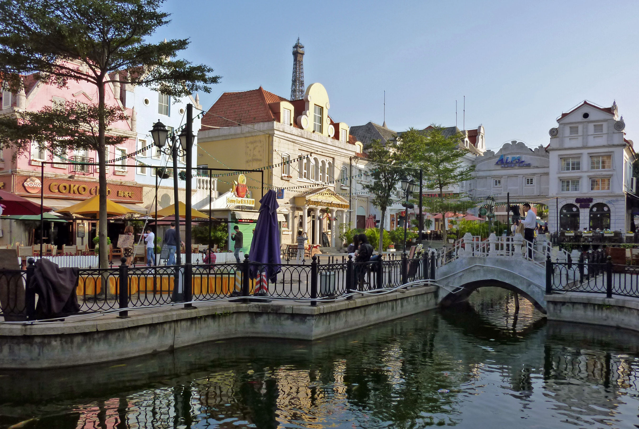 A pan-European inspired village street lined with bars, in the freely accessible part of the Windows of the World theme park at Shenzhen. This can be found replicated in several other Chinese cities.